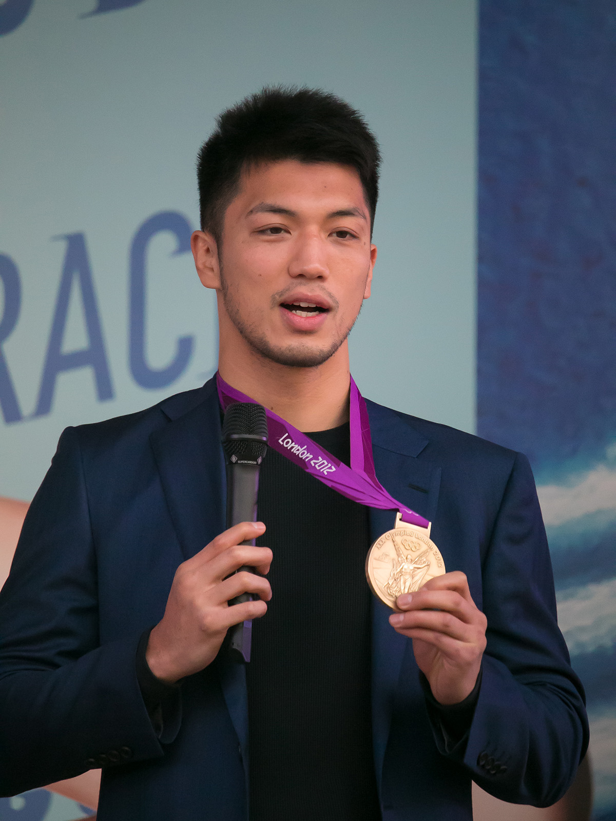 Ryōta Murata in Boat Race Suminoe, Osaka.